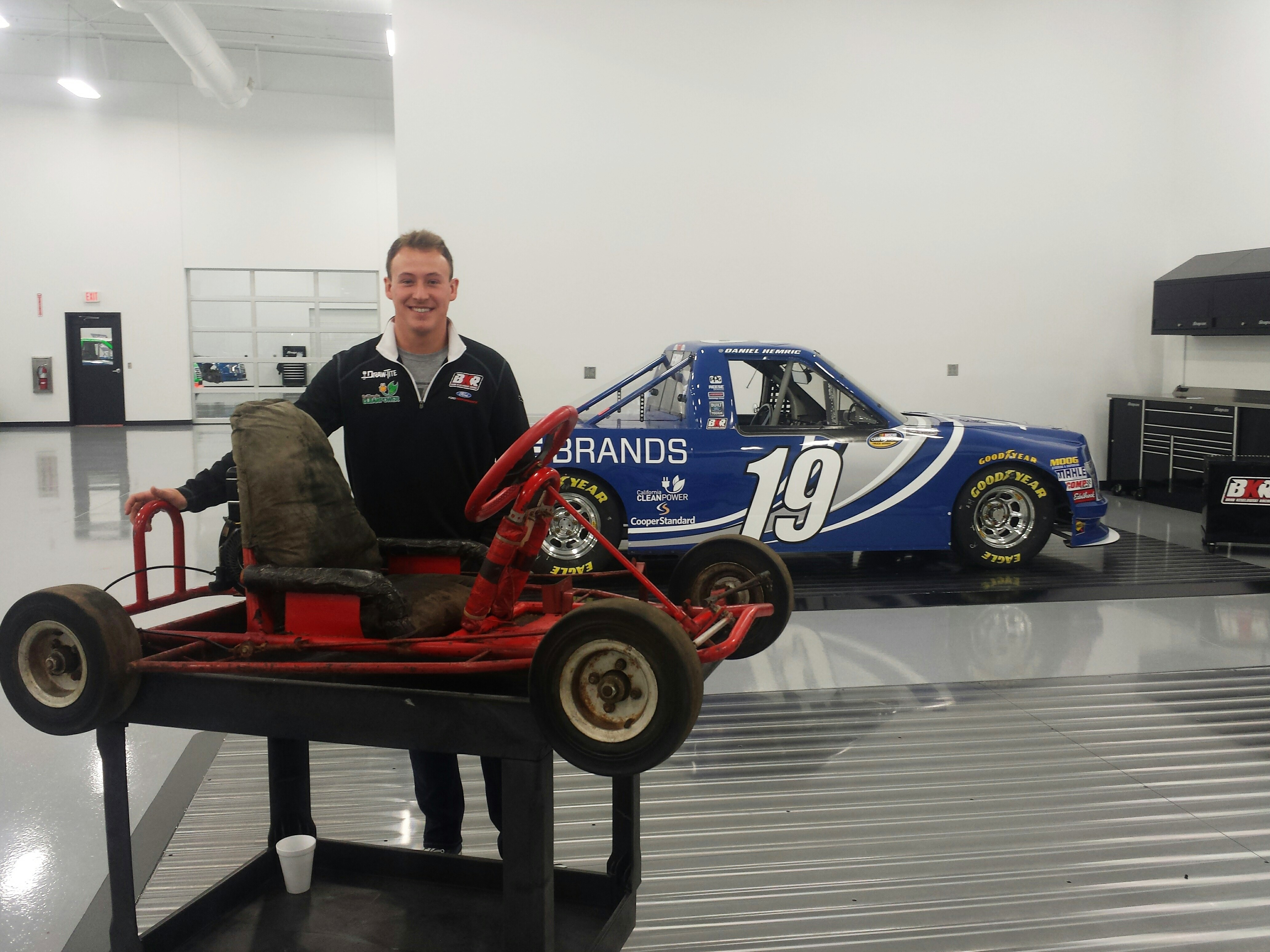 Hemric poses with the first go-kart he ever drove, with his No. 19 Ford F-150 in the background at the Brad Keselowski Racing shop in Statesville, NC.